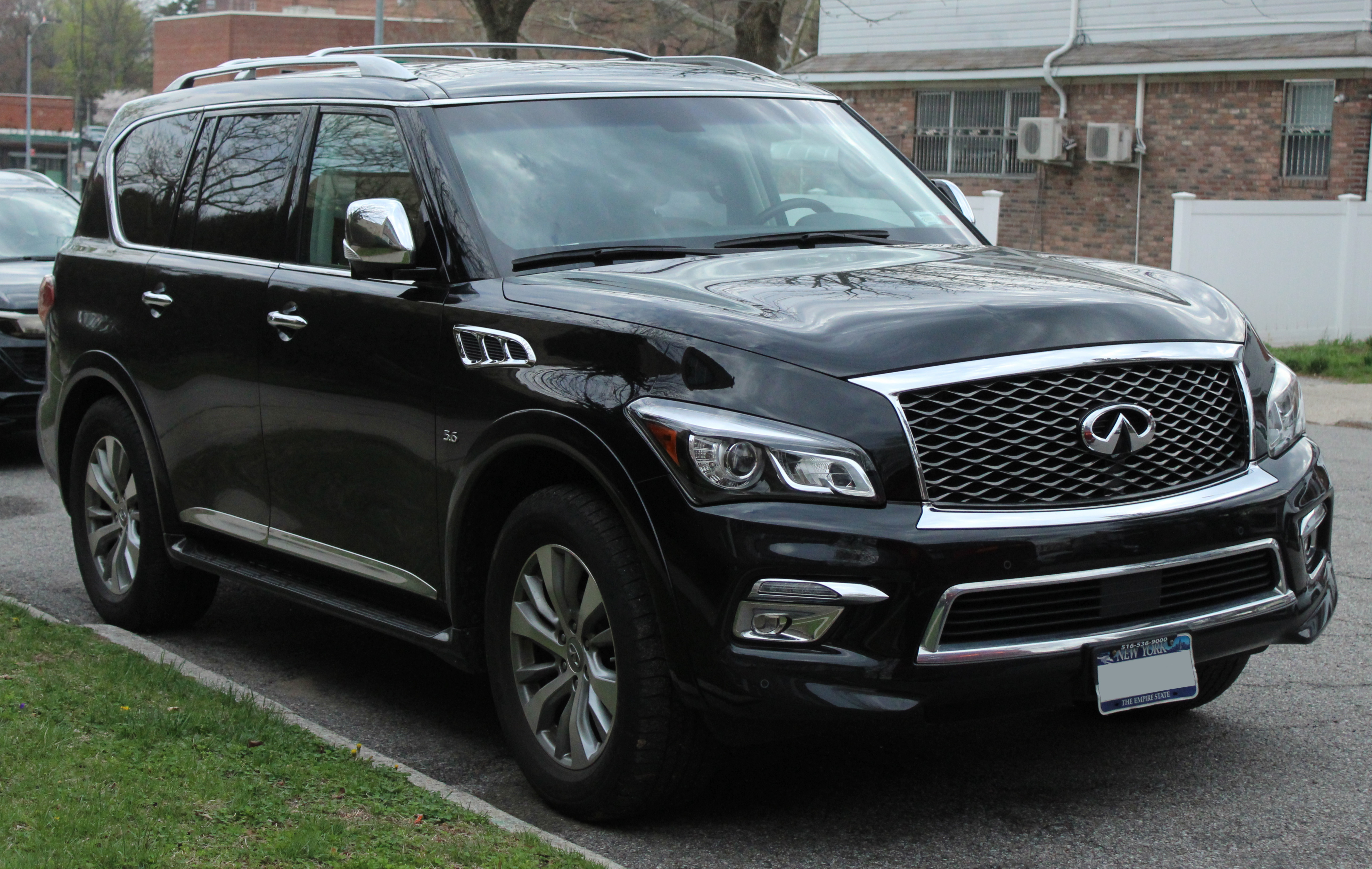 A 2016 Infiniti QX80 Photographed in Queens, New York, USA